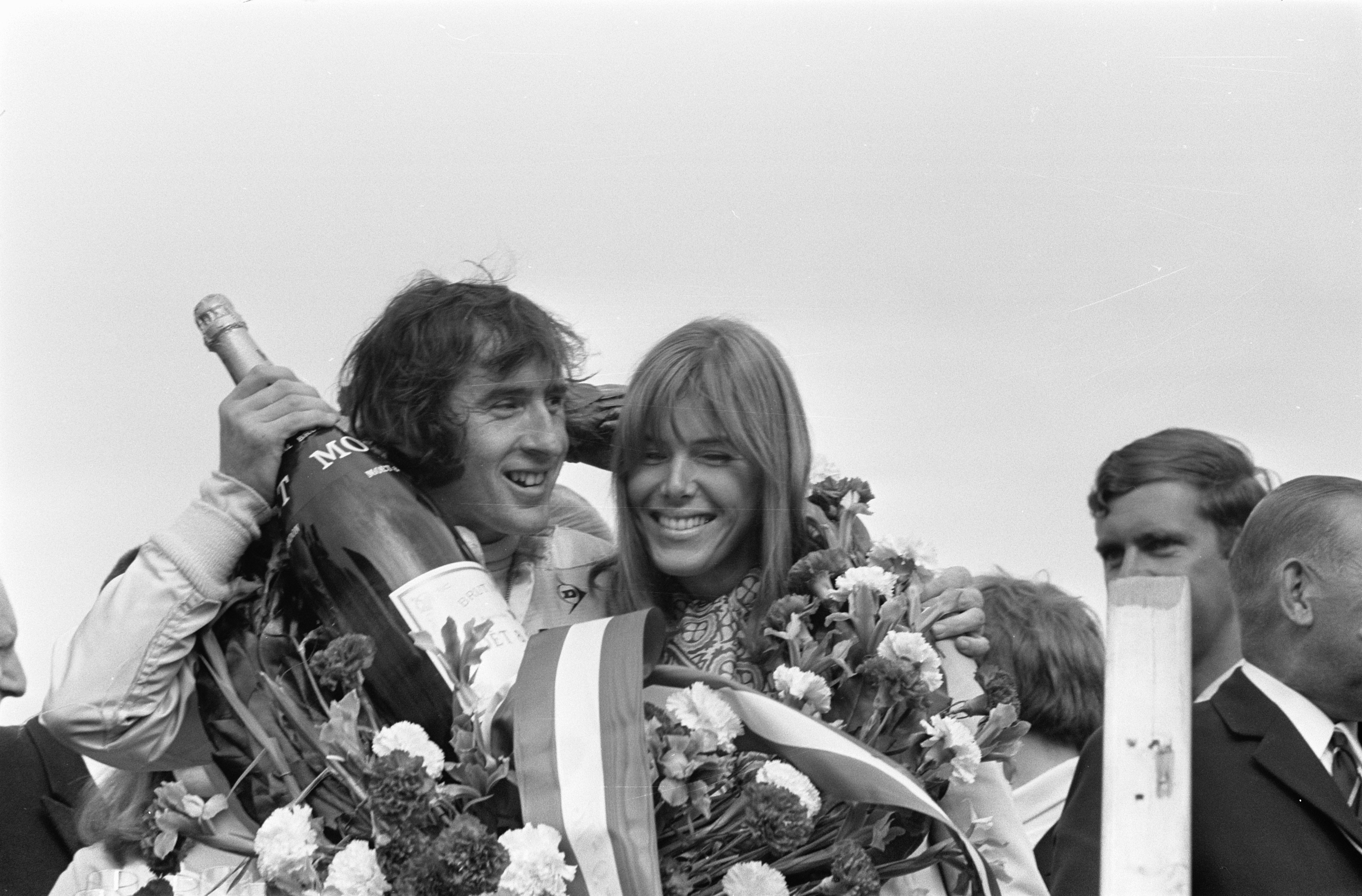 Jackie and Helen Stewart celebrate victory at the 1969 Dutch Grand Prix. From the days when drivers' wives didn't just have to gaze adoringly from the crowd...